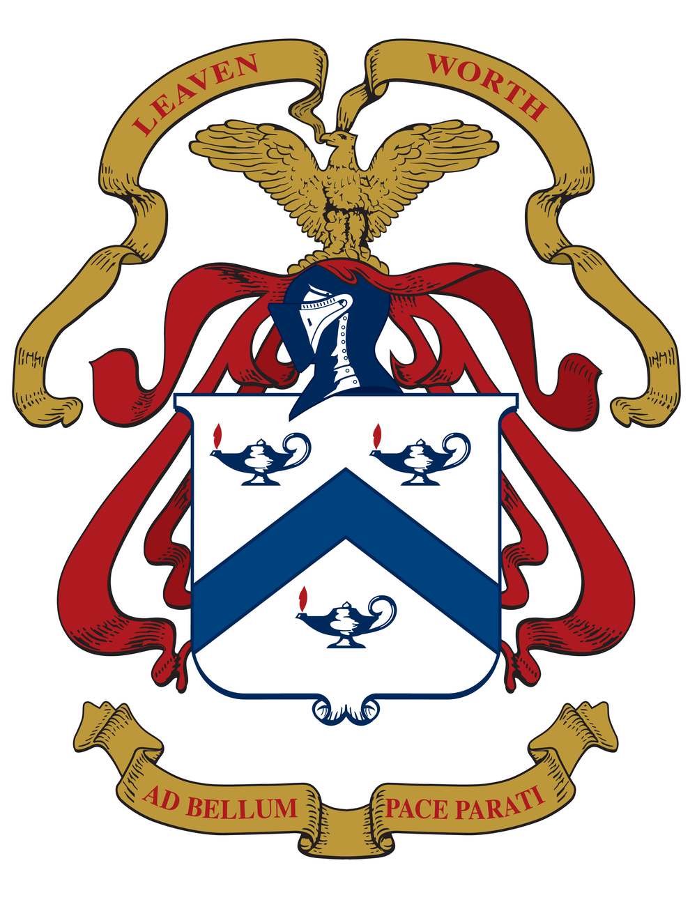 Fort Leavenworth Device, based on The Institute of Heraldry's device: [1]